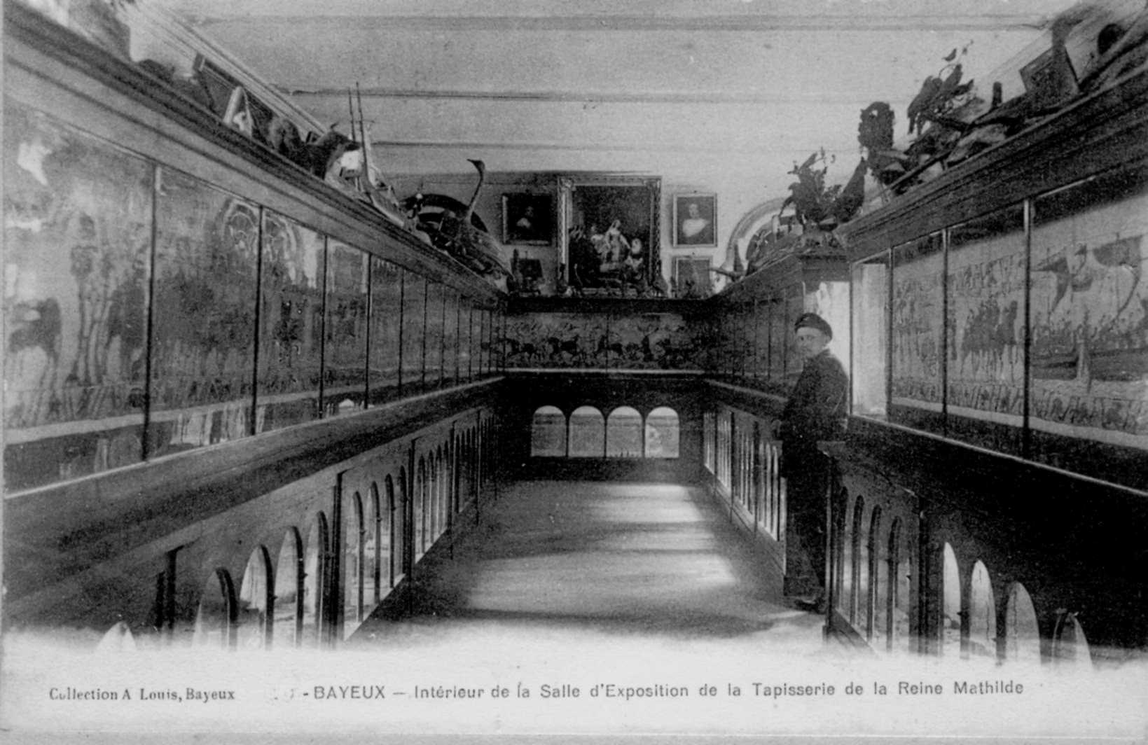 Bayeux la Galerie Mathilde